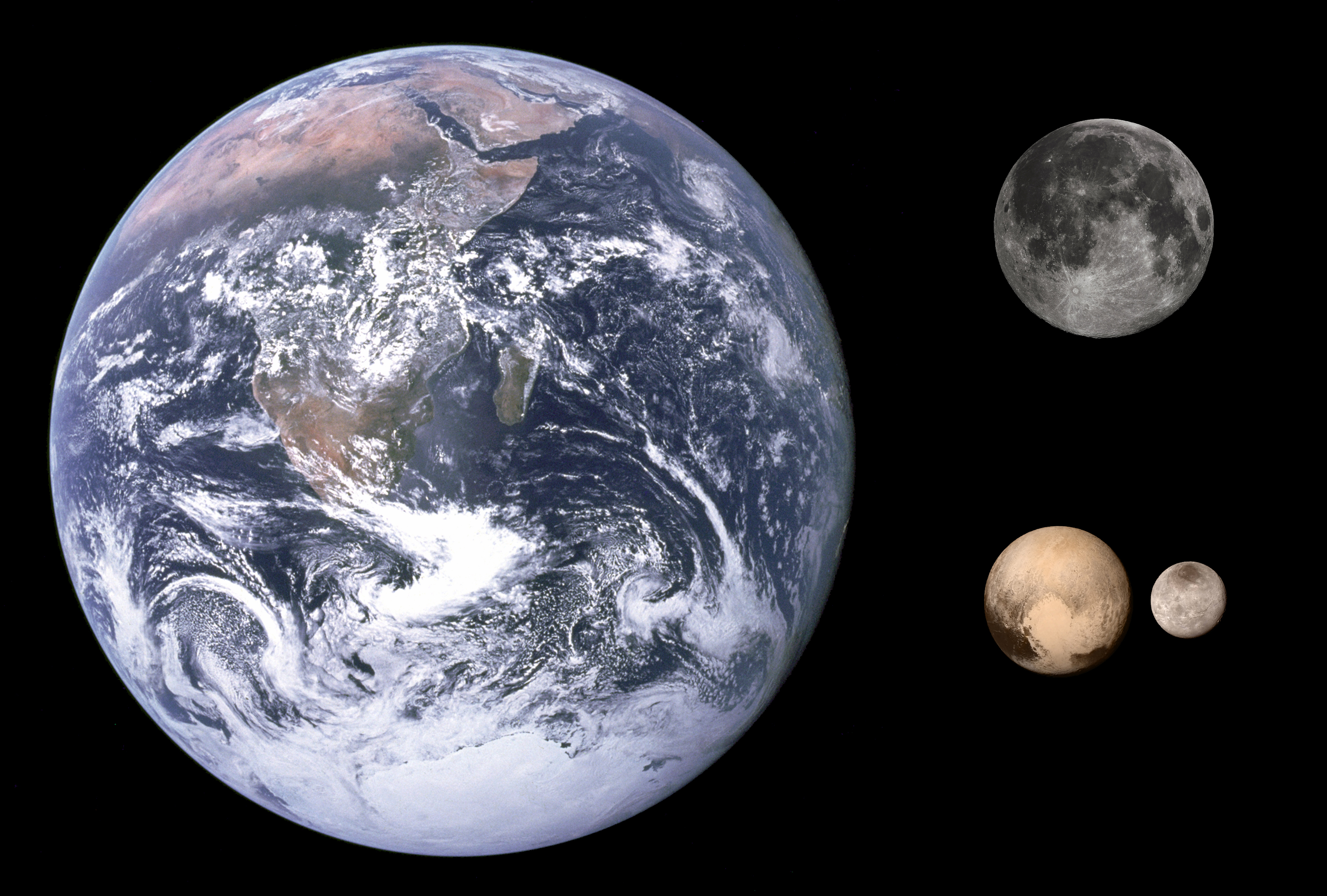 Diameter comparison of Pluto and Earth and their moons. Yes It´s true!